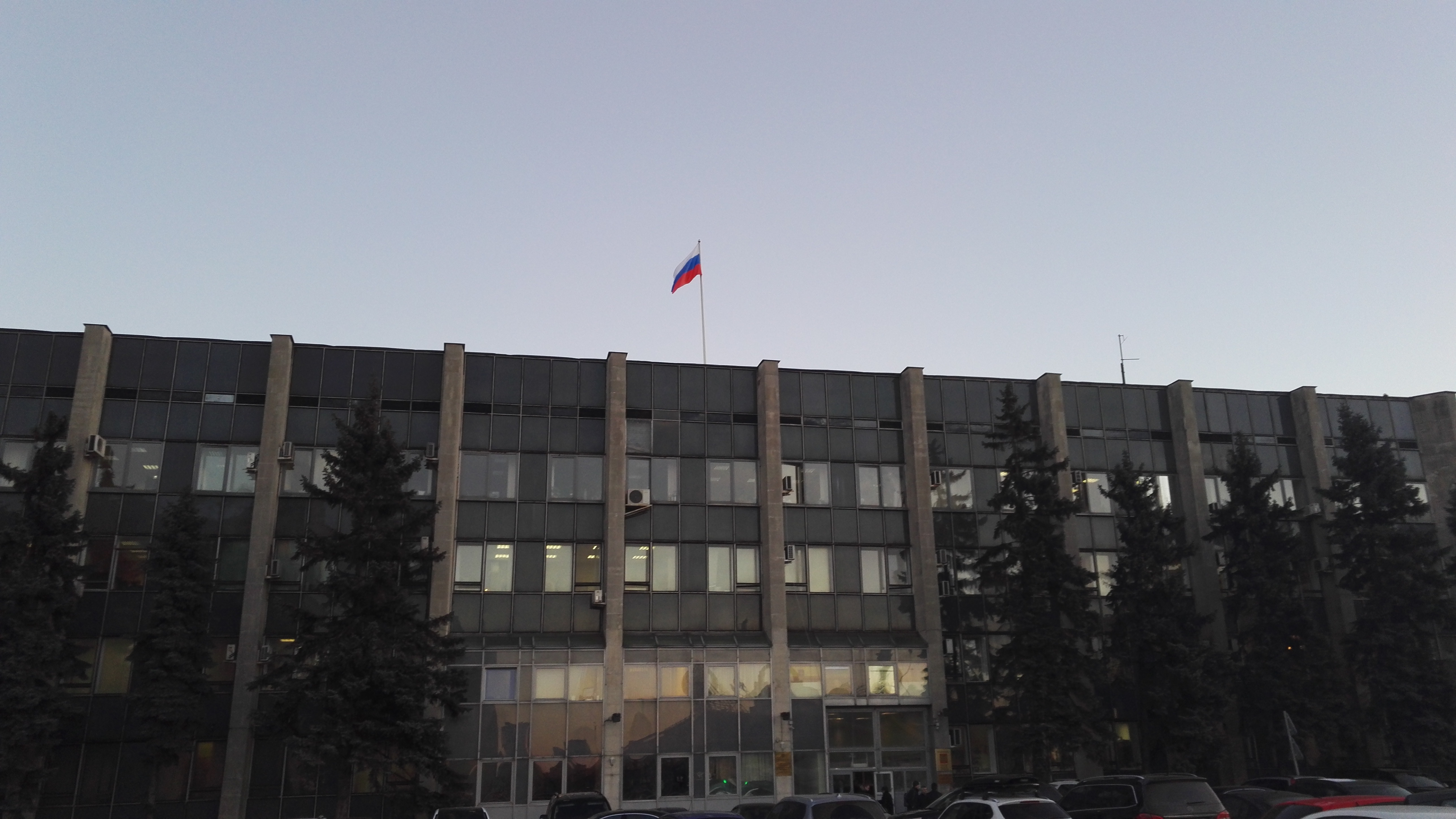 buiding of CAA of Russia (Rosaviatsia) at 37 Leningradsky Prospekt, Moscow